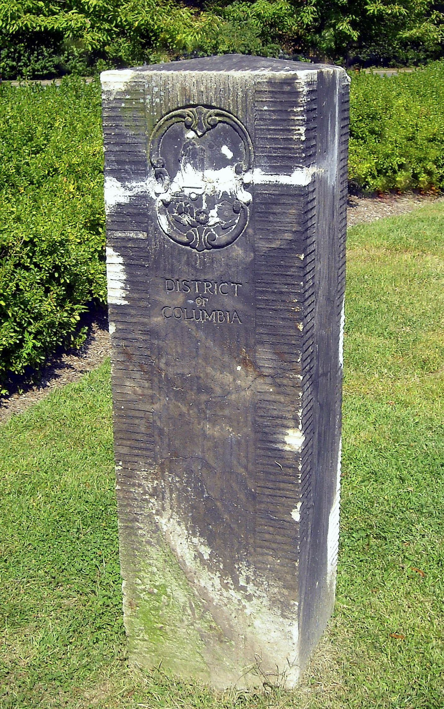 The Garden Club of American Entrance Marker, Chevy Chase Circle, located on the Washington, D.C./Maryland border. The stone pylon was made in 1933 and is listed on the National Register of Historic Places.